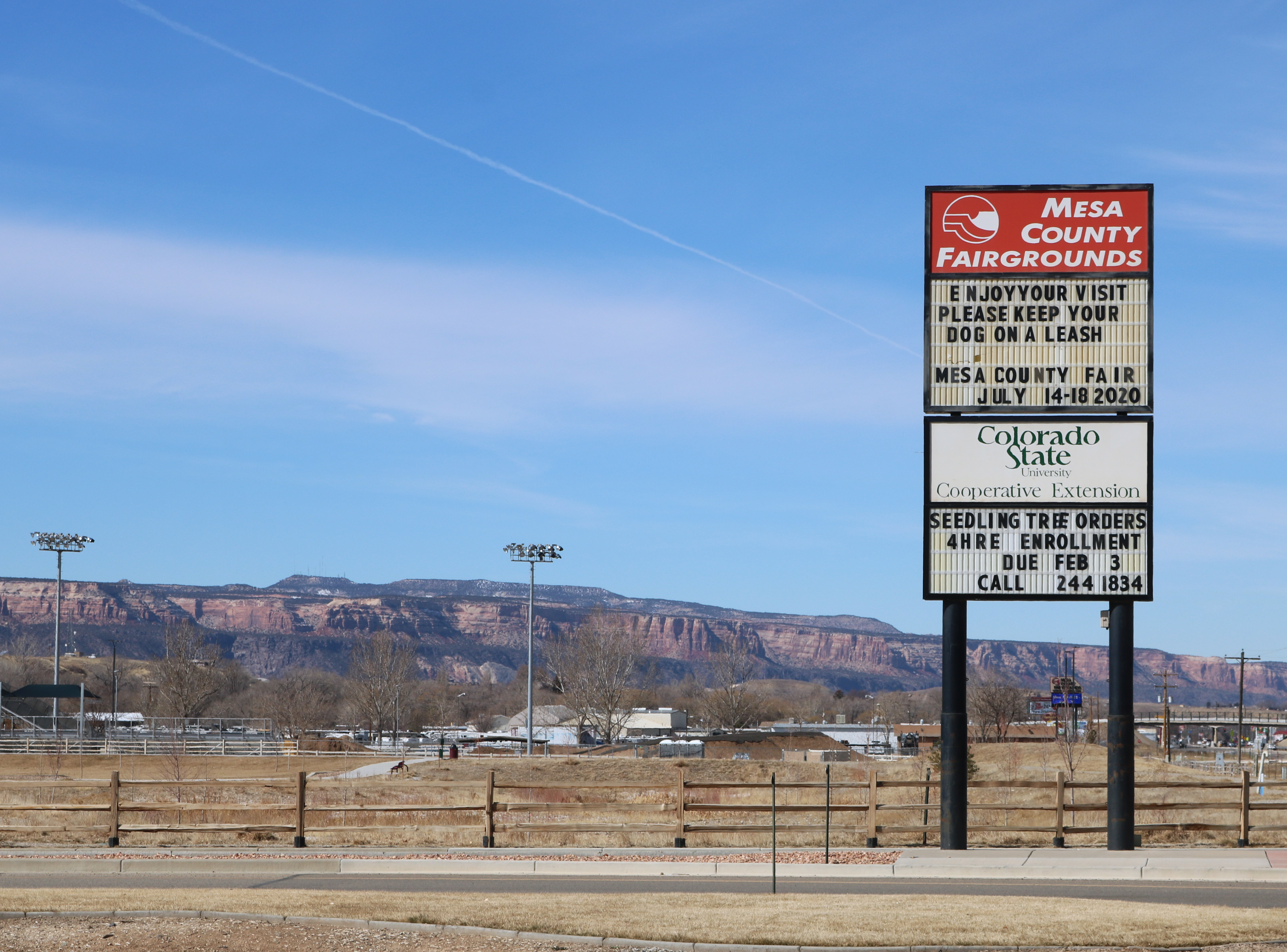 The Mesa County Fairgrounds, located at 2785 U.S. Highway 50 in Orchard Mesa, Colorado.